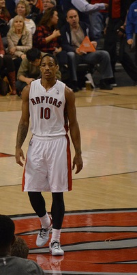 Demar DeRozan